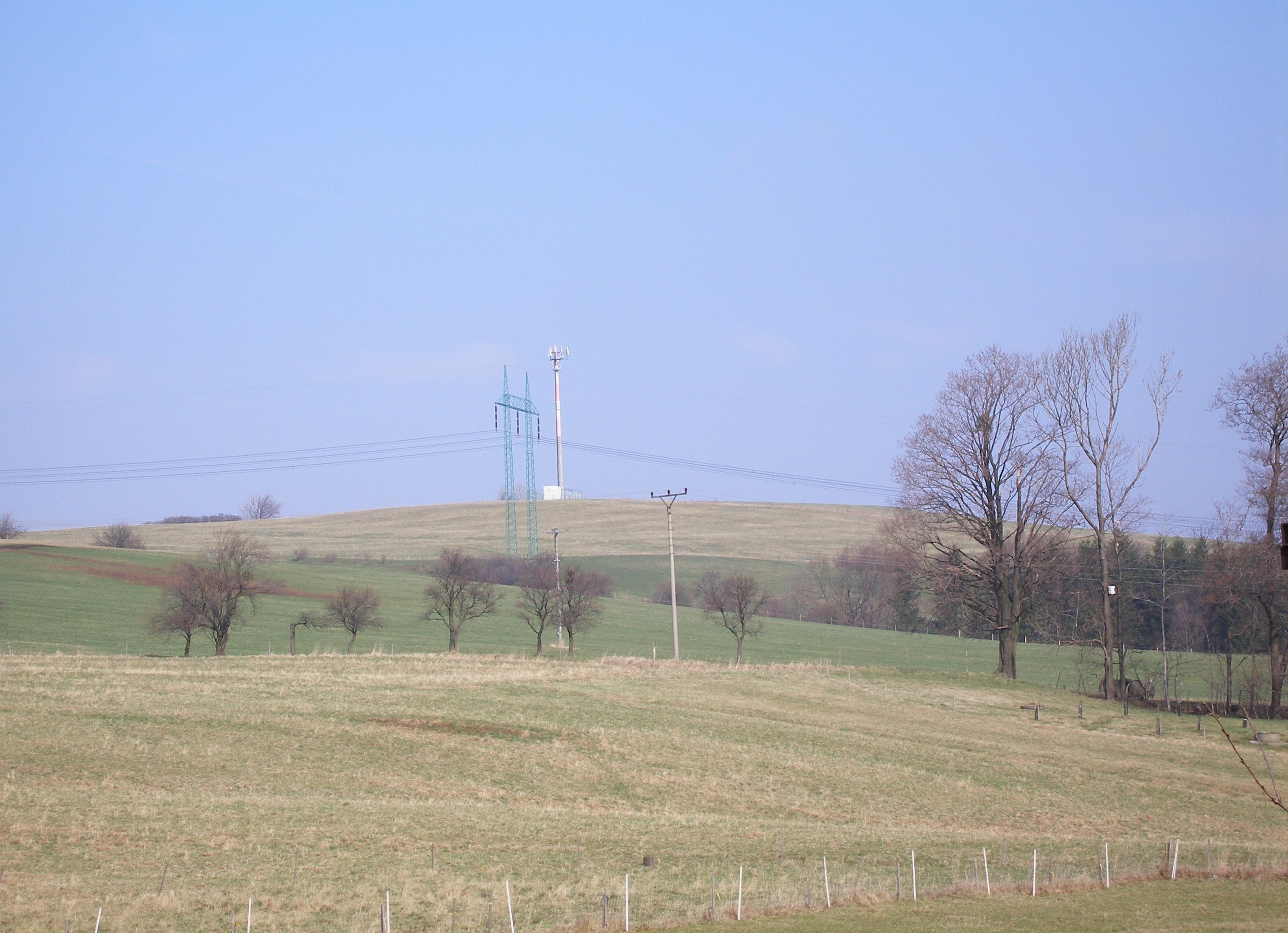 Mořkovský vrch; pylon of the Prosenice–Nošovice 400 kV power line (V403) in the background.